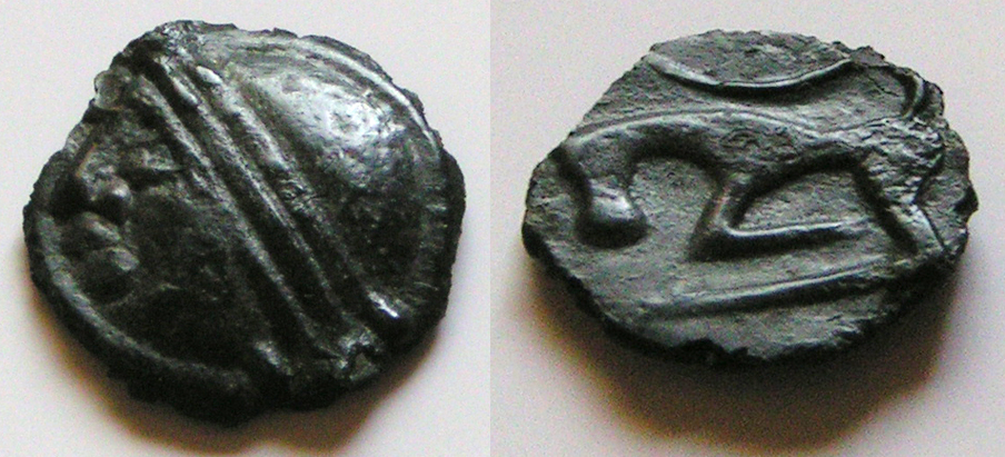 Potin-called "big head", a variant with three smooth bands, attributed to Ségusiaves. The obverse of the coin shows a face of a warrior wearing a helmet, the reverse depicts a quadruped creature leaping, generally considered to be a bull, a goat or a horse.